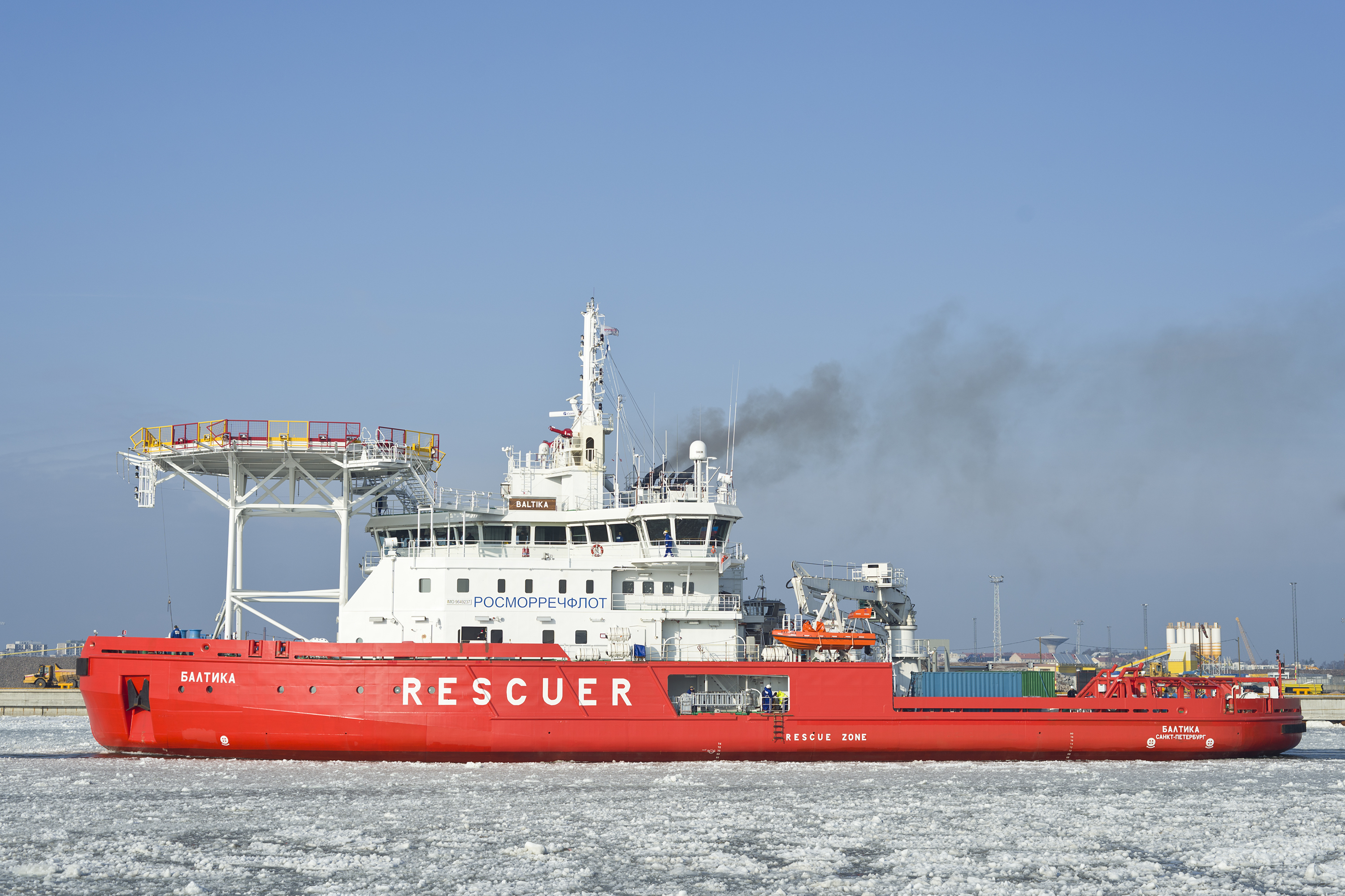 Baltika leaving for first sea trials on 6 March 2014.